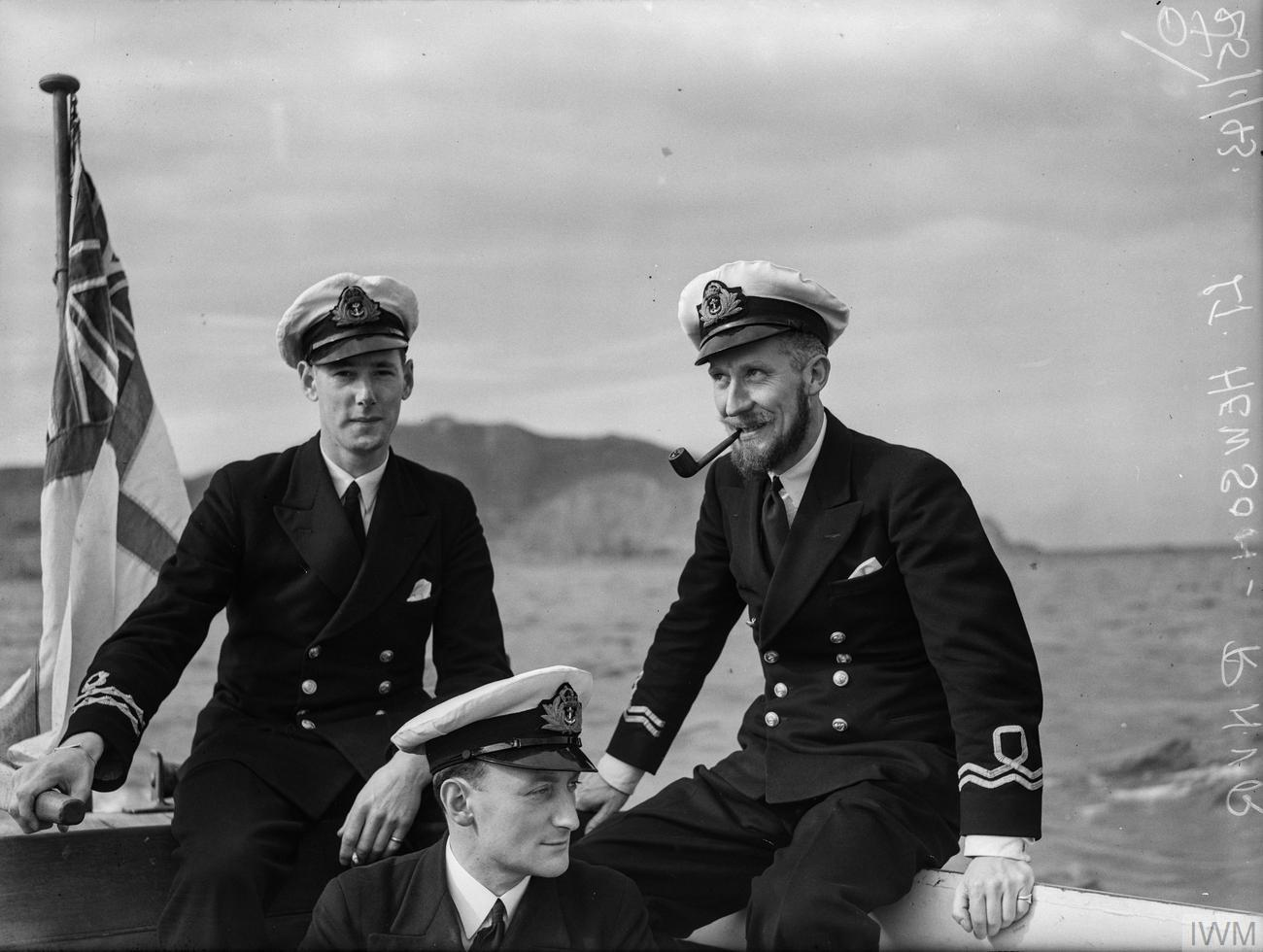 Naval Officer Who Came To the Rescue of French Family at Oran. 25 and 26 January 1943, Oran and Mers-el-kebir. Lt Ronald G Hewson, Rnvr, Was Looking in the Window of a Wireless Shop at Oran, North Africa. He Overheard the Manager Telling a French Customer That a Broken Wireless, Which He Had Brought In, Could Not Be Repaired. Lt Hewson Who in Peacetime Ran His Own Radio Transmitting Station and Was a Keen Amateur Wireless Mechanic, Went in and Offered To Do the Repair Himself. His Offer Was Accepted. Since Then He Has Paid Frequent Visits To the Home of the Wireless Set's Owner, and Is Now Accepted As One of the Family. As a Mark of Appreciation the Son of the Family Presented Him With a Leather Wallet Bearing the Inscription "as a Token of My Sympathy and Tremendous Admiration For the Heroic English People". Lieutenant R Hewson, RNVR,(right) going ashore at Oran.